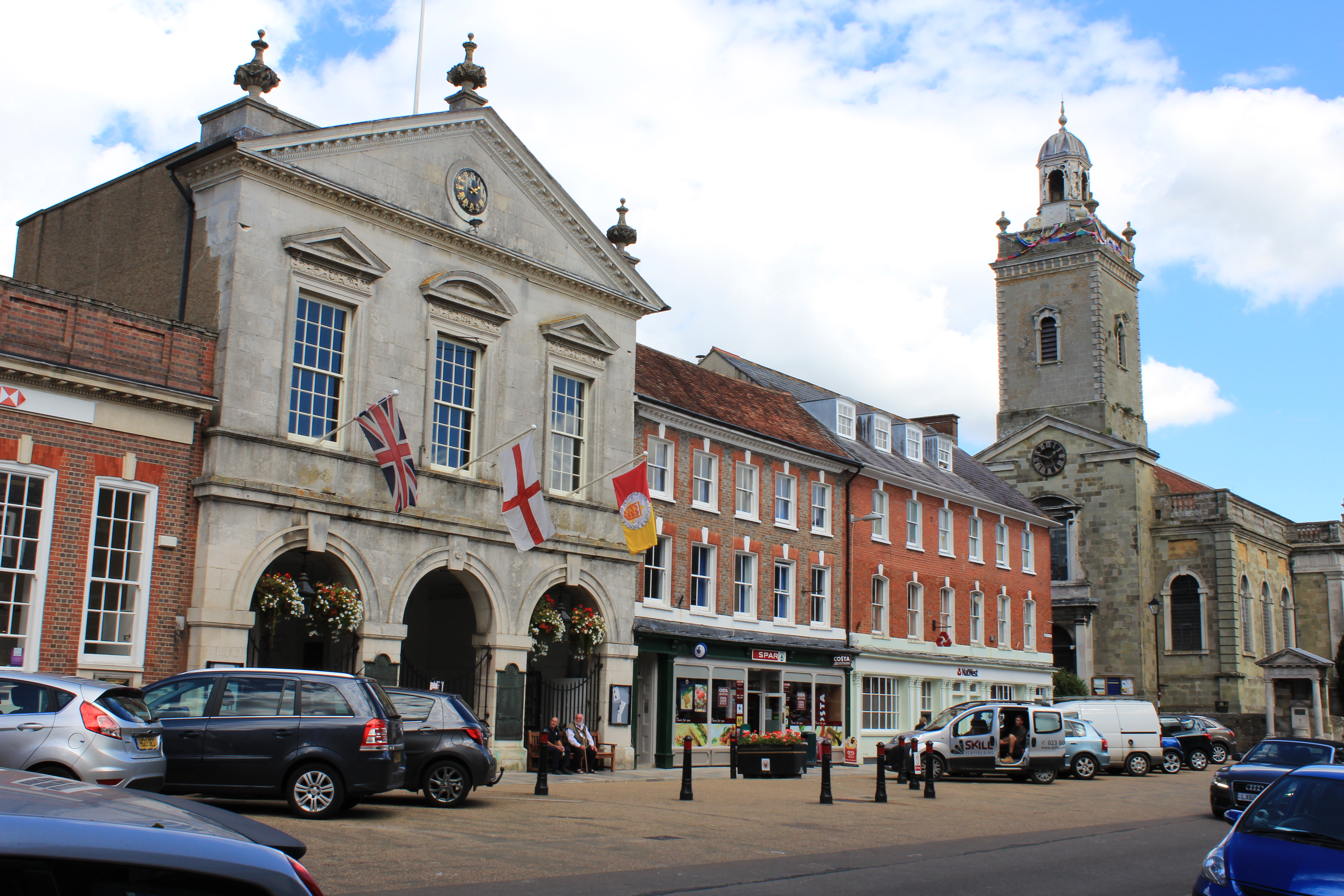 Market Place, Blandford Forum, Dorset, England, on 1 September 2015